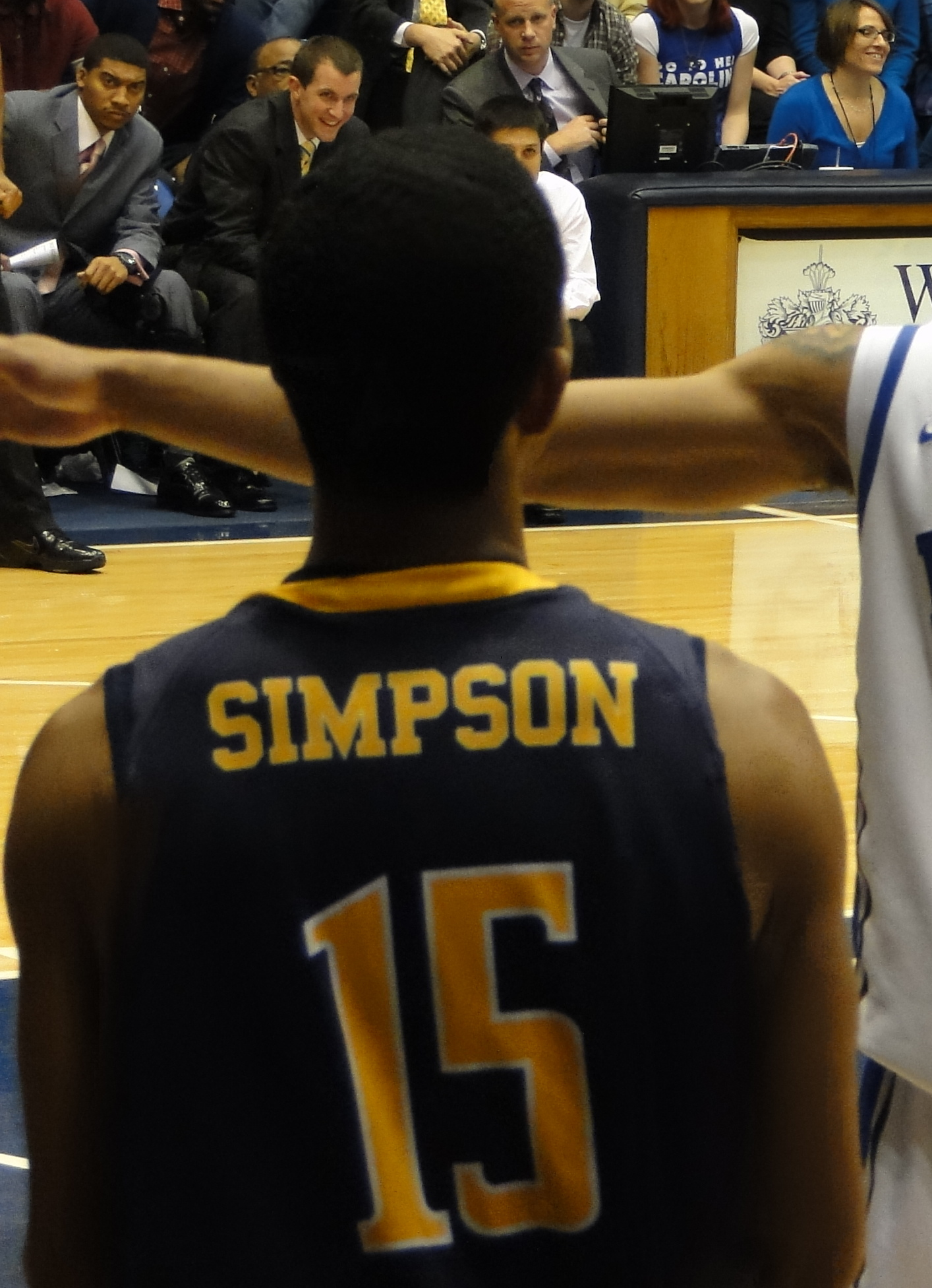 Michael Gbinije playing for the Duke Blue Devils during the 2011–12 season